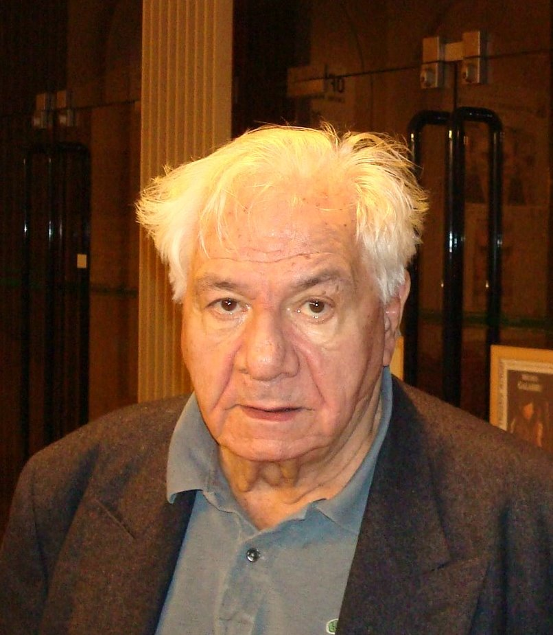 Michel Galabru in Saint Malo (2008)